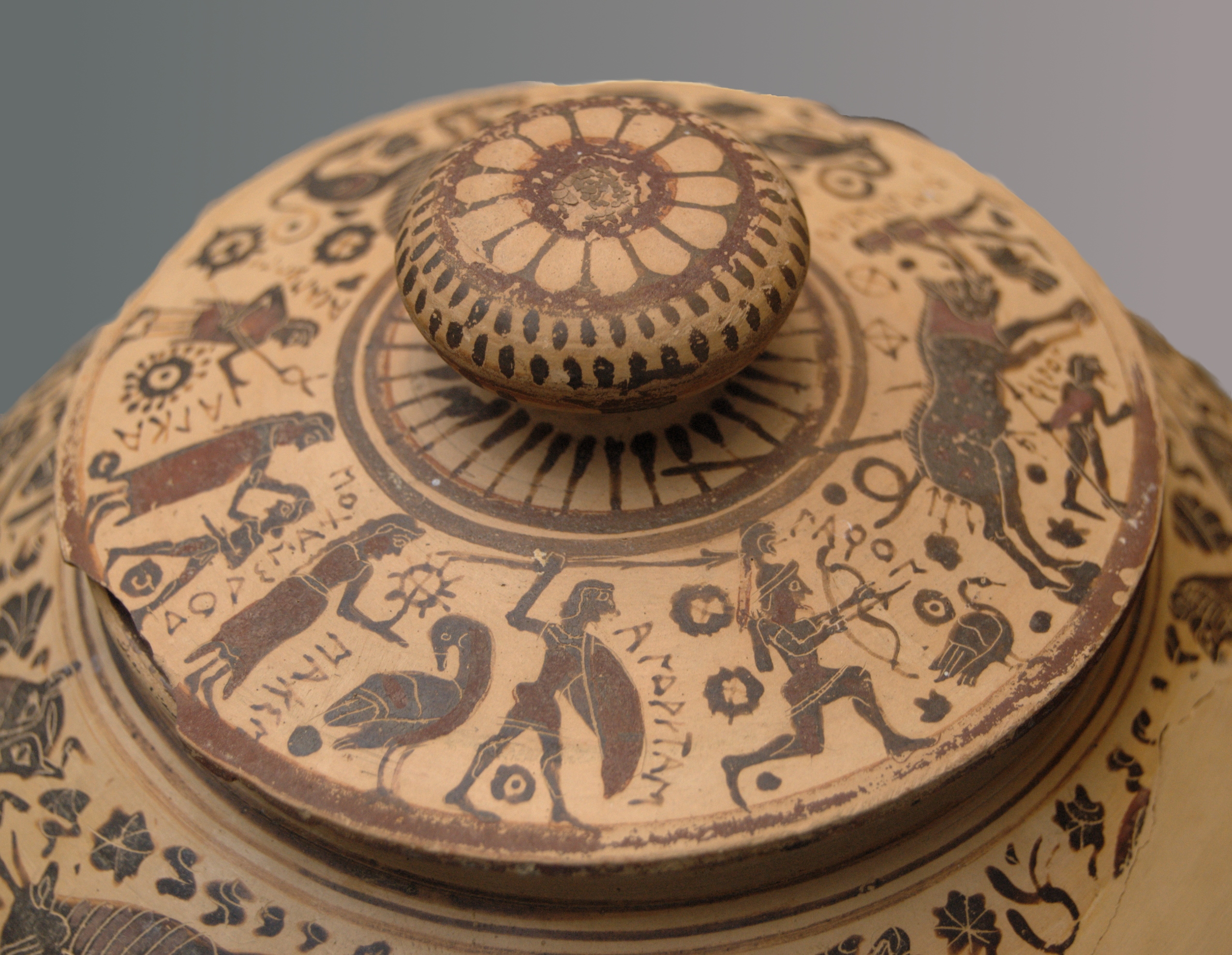 Lid from a Corinthian pyxis, ca. 590 BC.